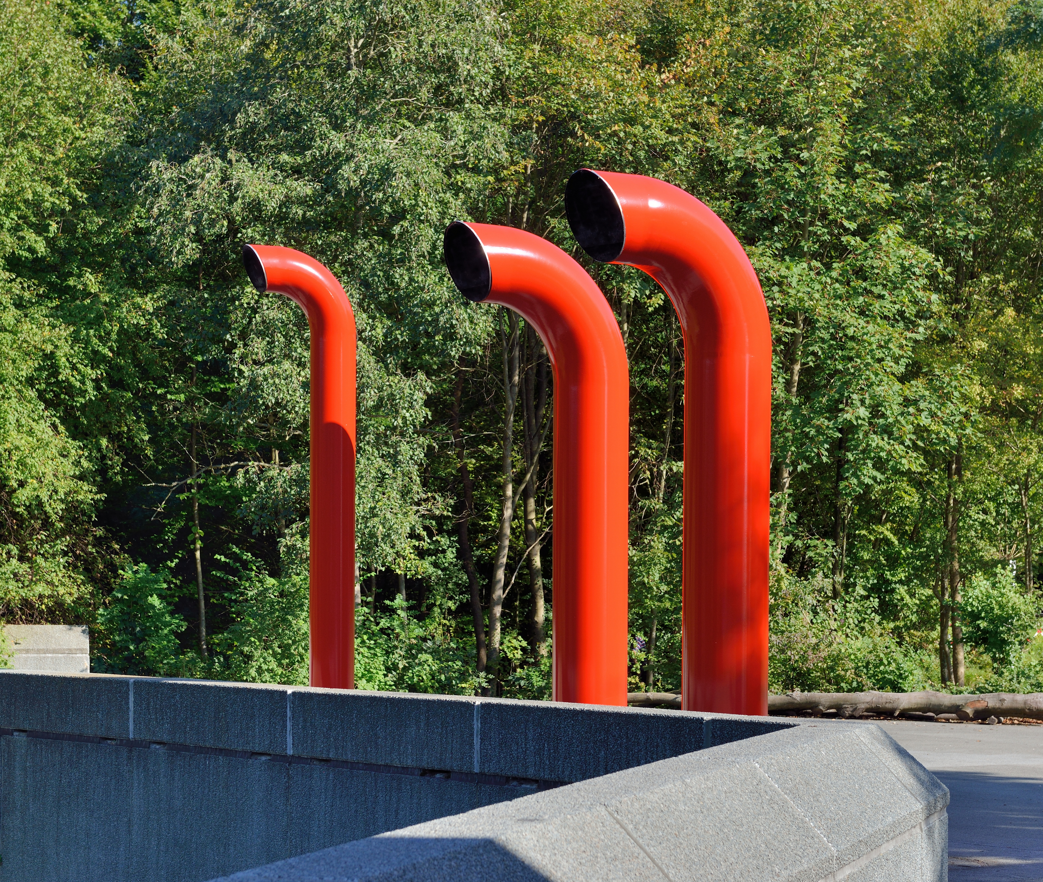 TV Tower St. Chrischona